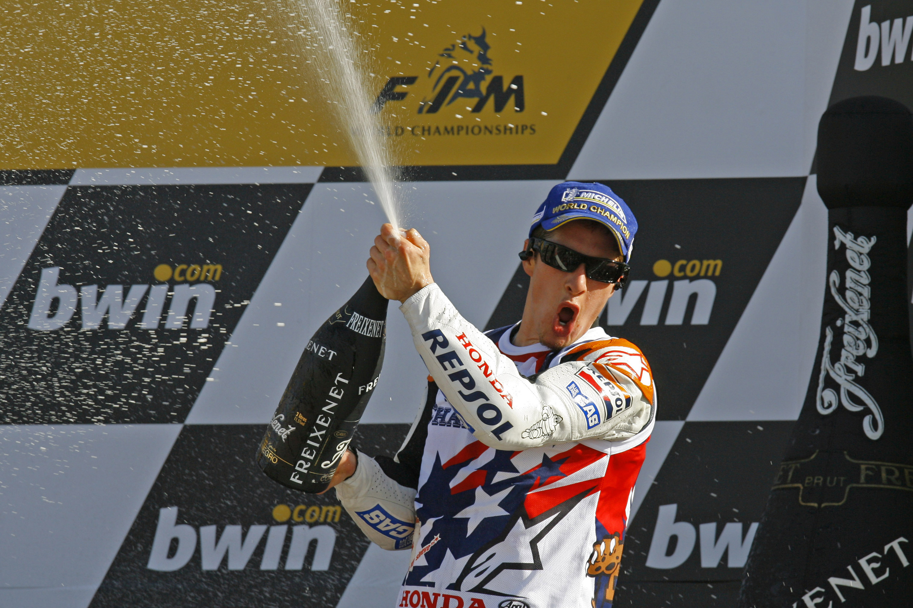 Nicky Hayden, standing on the podium and spraying the champagne, celebrating his world championship title at the 2006 Valencian Community Grand Prix.